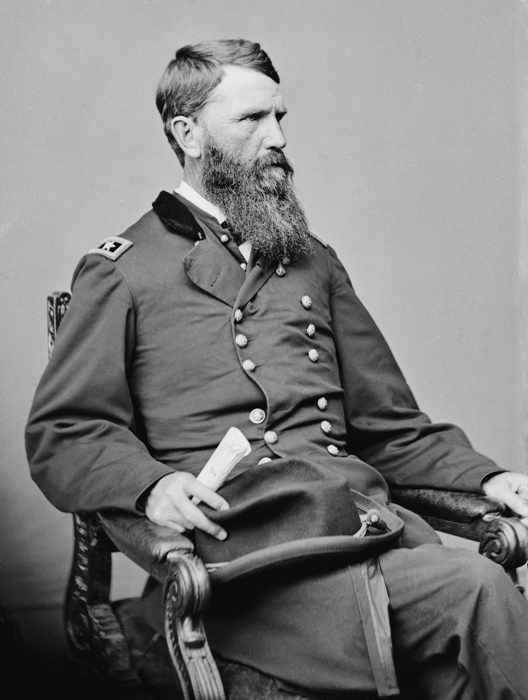 Francis Preston Blair (February 19, 1821 – July 9, 1875) was an American politician and Union Army general during the American Civil War. He ran for vice president in 1868 but lost the election. Caption of photo at LOC is "Gen. Frank P. Blair"